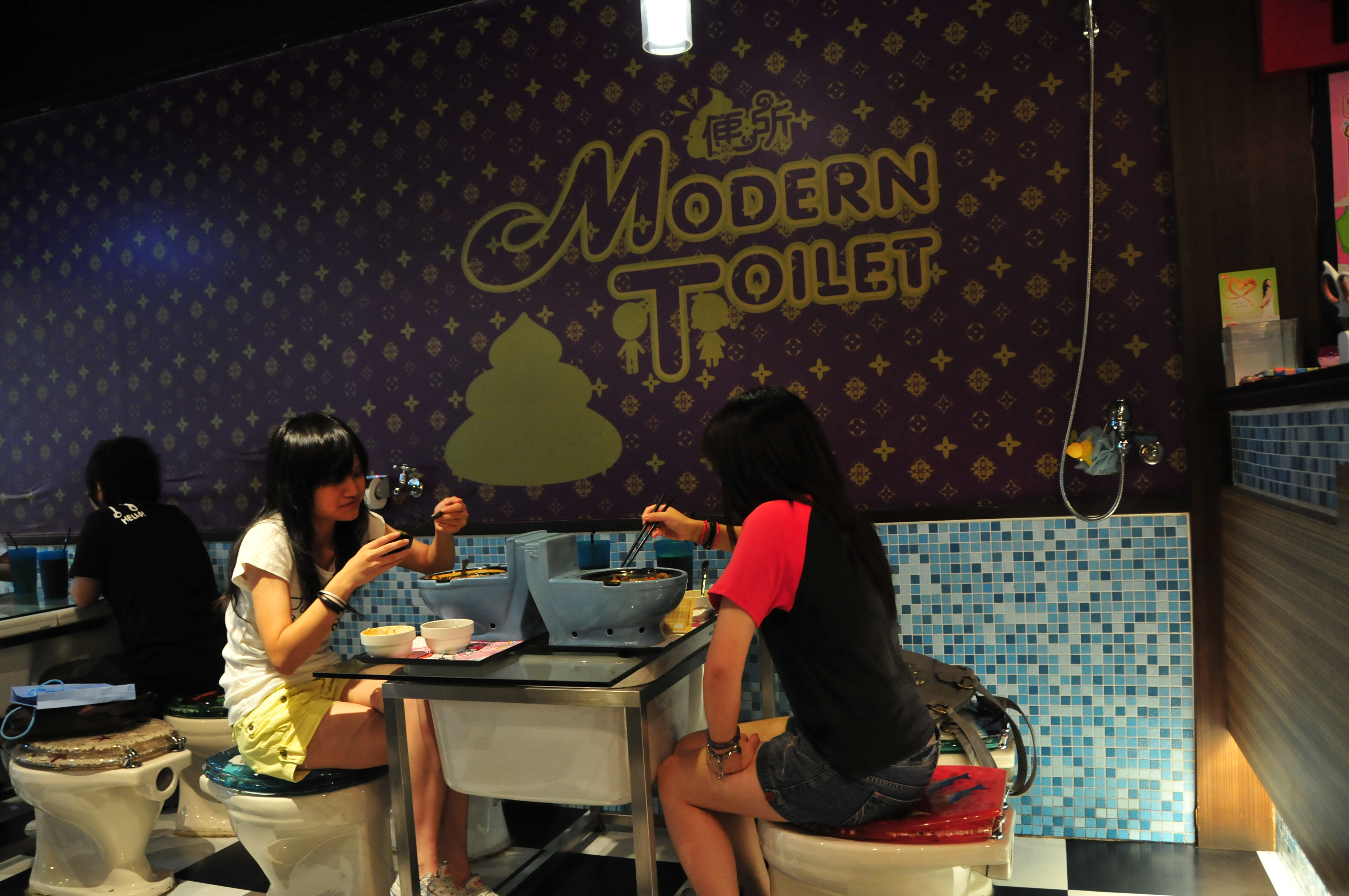 two persons eating at bathroom themed Modern Toliet in Taipei, Taiwan